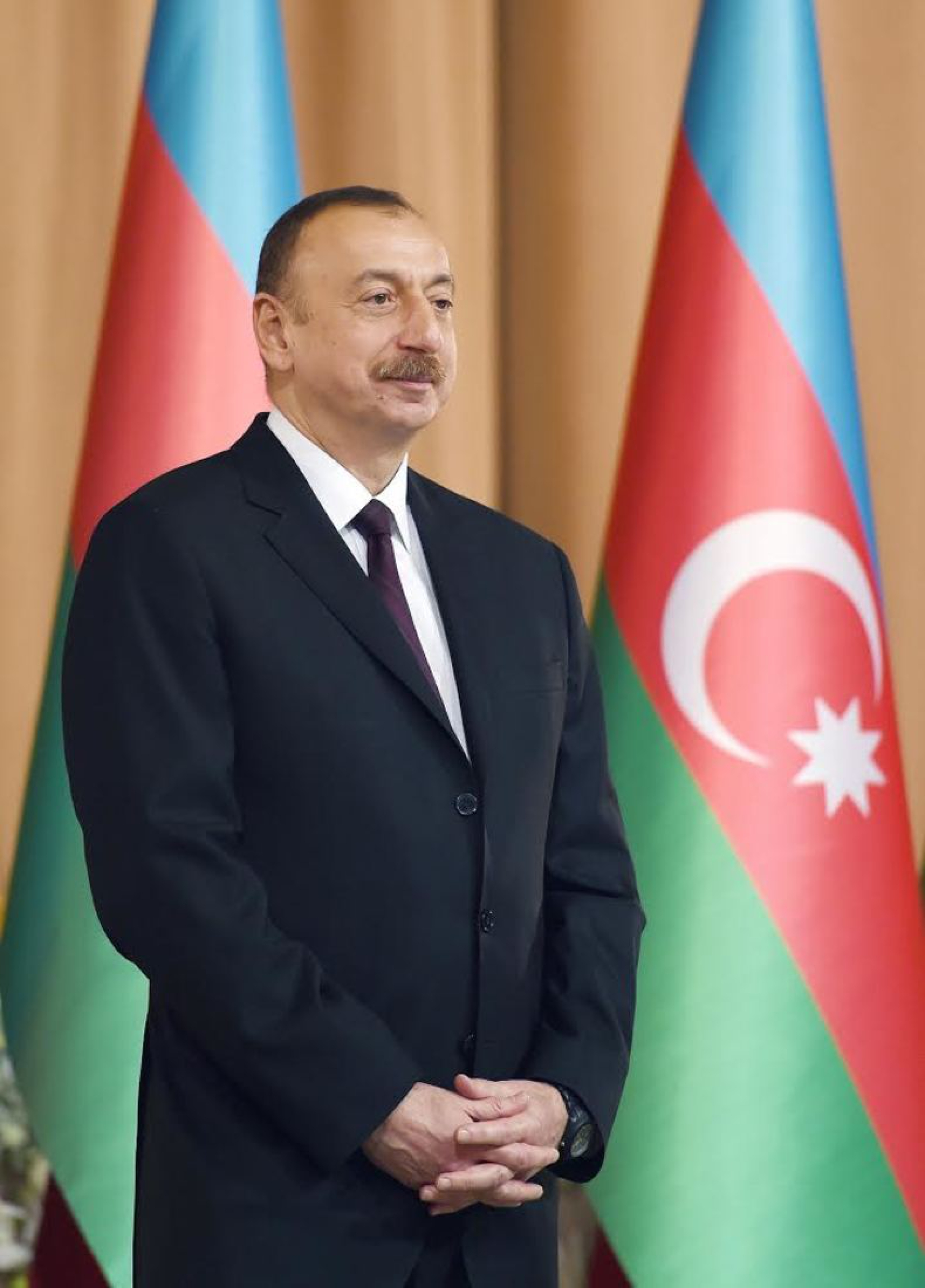 Ilham Aliyev